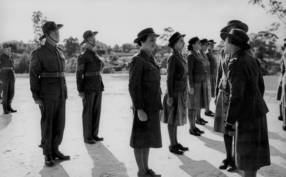 Women in training for the Australian Women's Army Service, Brisbane, August 1942. Members of the A.W.A.S. training for service with anti-aircraft units. (Description supplied with photograph).